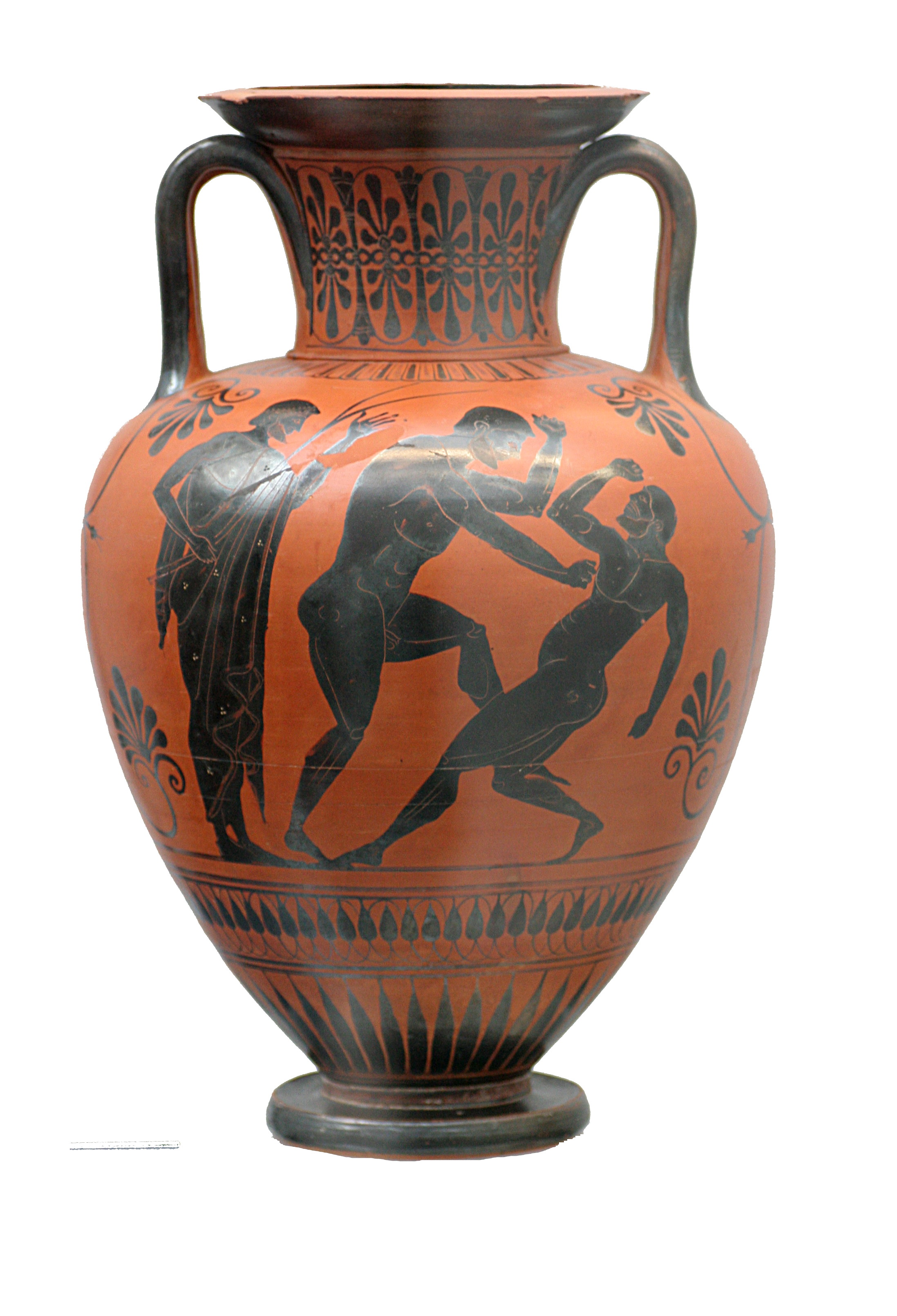 Boxers and trainer. Side B of an Attic black-figure neck-amphora, 500–490 BC.